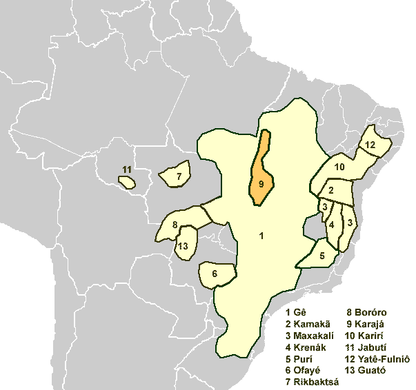 Karaján languages (orange), (probable spread area at the time of contact) Source: Ribeiro, Eduardo & Van der Voort, Hein (2010) “Nimuendajú was right: The inclusion of the Jabuti language family in the Macro-Jê stock”, International Journal of American Linguistics, 76/4.